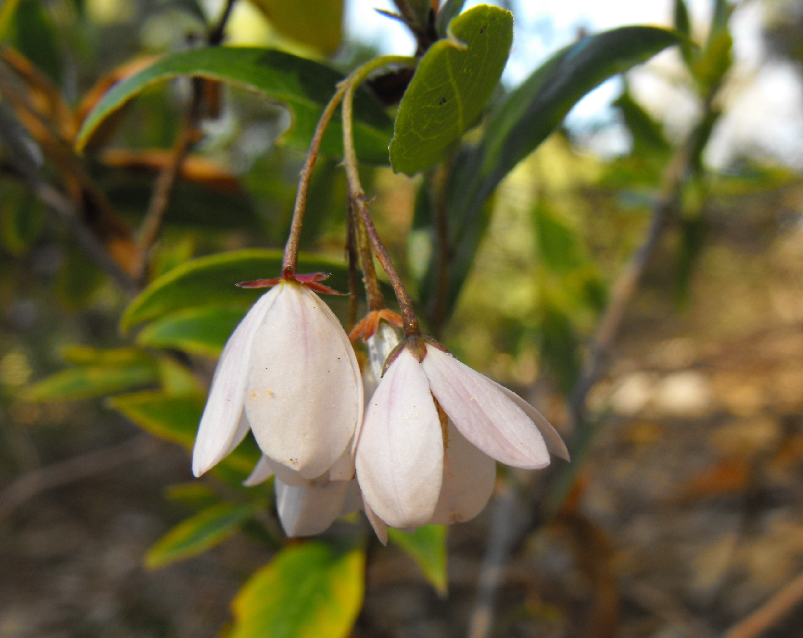 Billardiera heterophylla at Quail Botanical Gardens in Encinitas, California, USA.